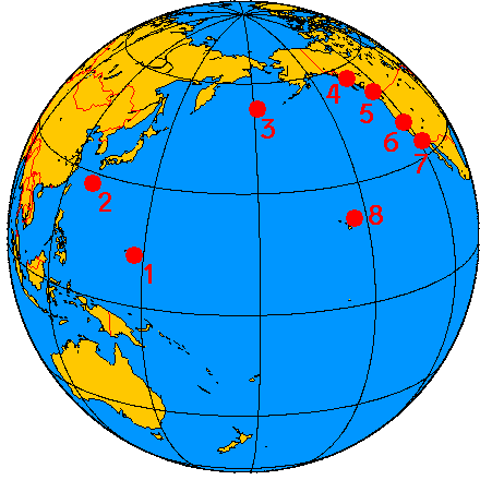 AN/FRD-10 HF/DF Wullenweber antennae sites (Pacific ring)